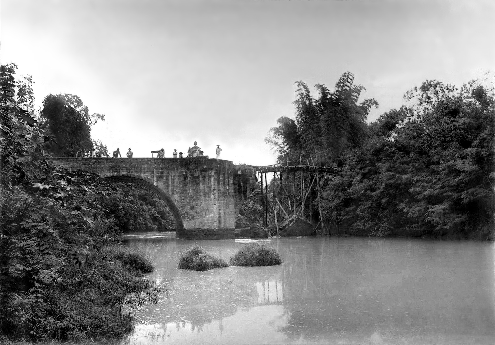 An 1899 picture of the dismantled Bridge of Isabel II in Imus, Cavite in the Philippines. The northern span of the bridge was ordered struck down by revolutionary leader Emilio Aguinaldo for the imminent conflict on September 3,1896 with the incoming Spanish soldiers from Manila. In this picture taken by the Americans, a temporary span made of bamboo was constructed to connect the bridge.(Original picture photoshopped by uploader).